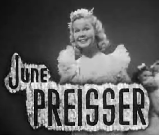 Cropped screenshot of June Preisser from the trailer for the film Strike Up the Band